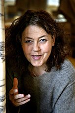 Agneta Ehrensvard